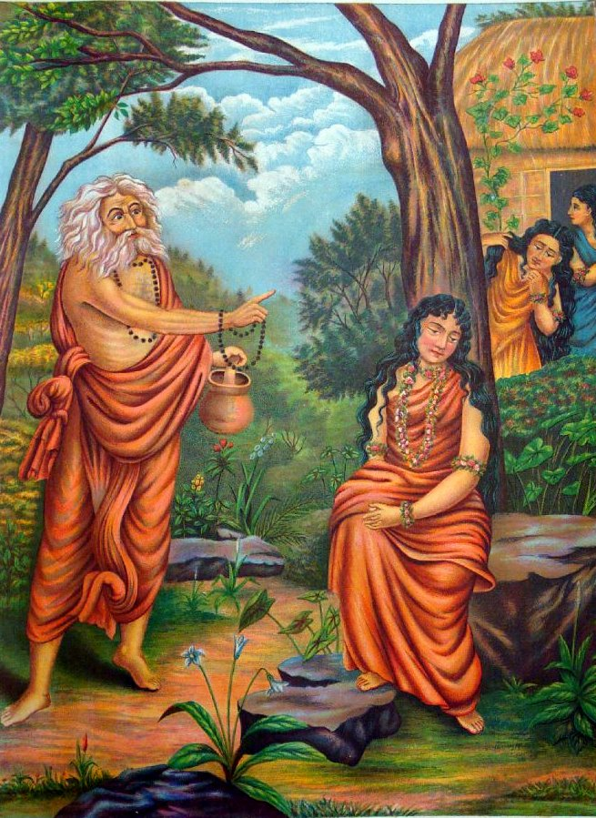 "Album of popular prints mounted on cloth pages. Colour lithograph, lettered, inscribed and numbered 20. The sage Durvasa chastises Sakuntala for being lost in fantasy about her lover. This is an episode from the Mahabharata that was then expanded in a Sanskrit play by Kalidasa."